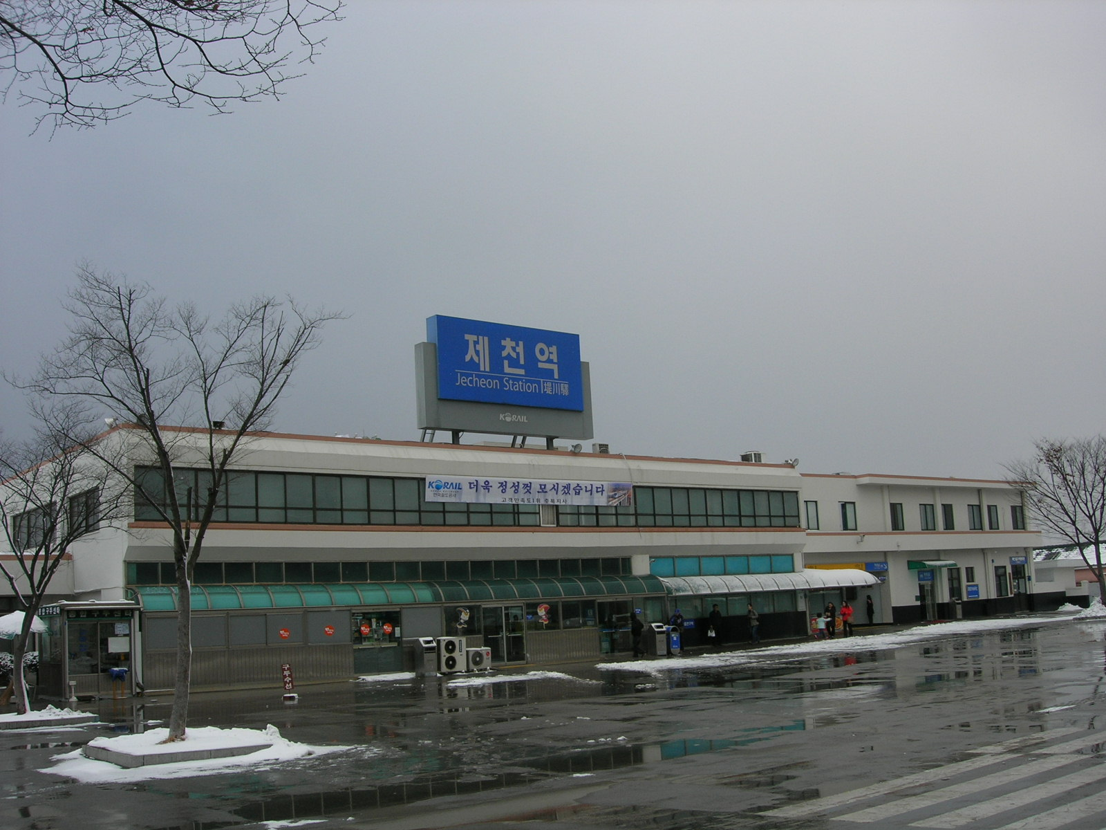 Jecheon Station (Jecheon city, Chungcheongbuk-do)